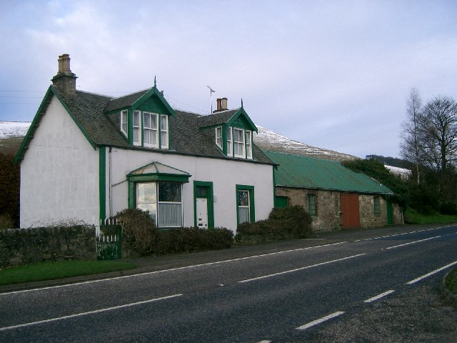 Cottage. On the A91 west of Pool of Muckhart.